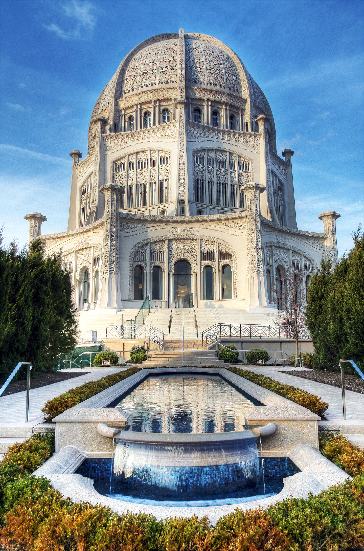 The Bahá'í House of Worship (Wilmette, Illinois), the oldest surviving Baha'i House of Worship in the world, and the only one in the United States.